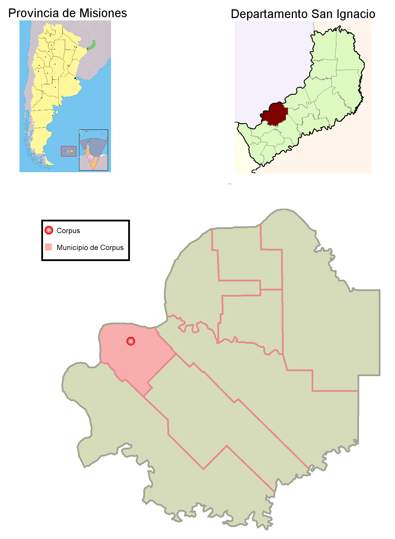 A map showing municipio of Corpus in Iguazú departament, Misiones province, Argentina. Also shows Corpus town location. Created with GIMP.